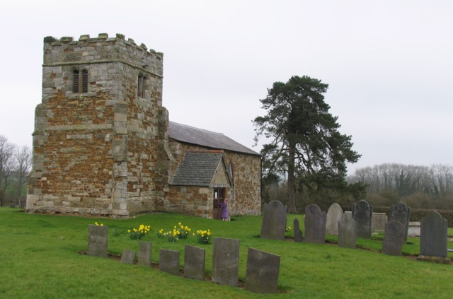 Former parish church of St Giles at the site of the abandoned village of Great Stretton, Leicestershire